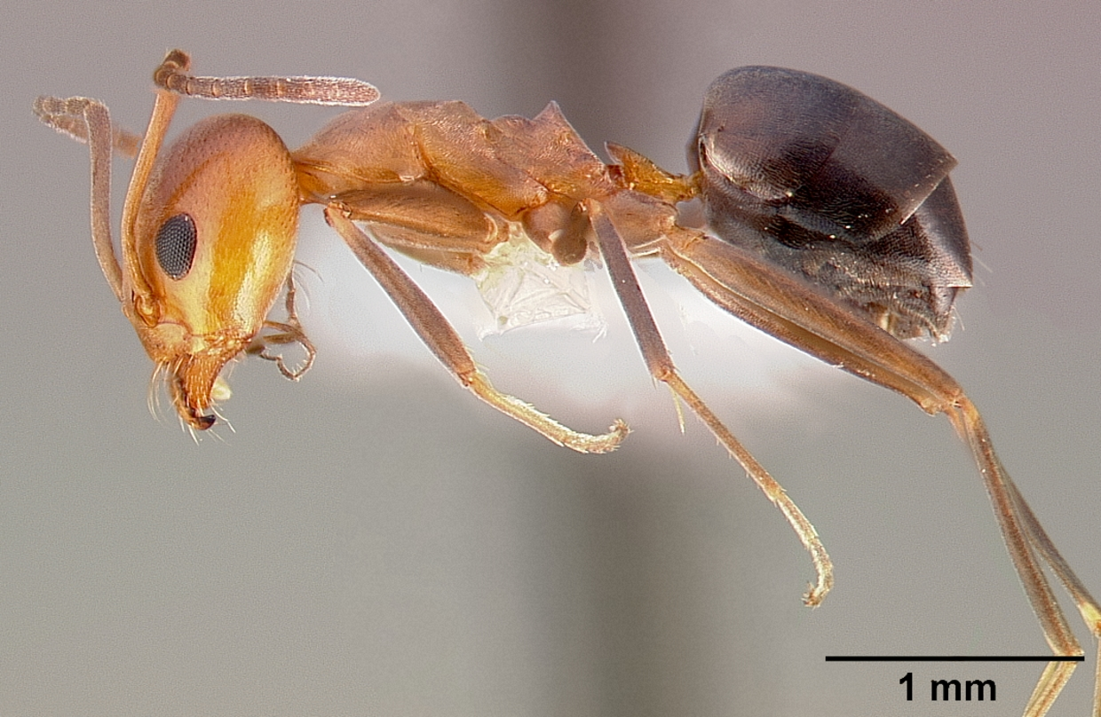 Profile view of ant Dorymyrmex bicolor specimen casent0005318.